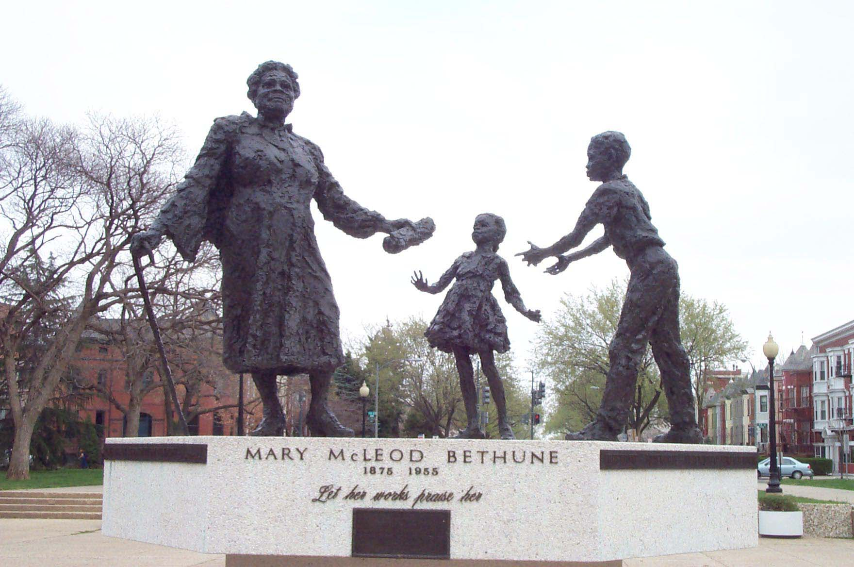 A larger-than-life-size statue of African American educator and activist Mary McLeod Bethune by Robert Berks stands in Lincoln Park in southeast Washington. Among many other contributions to the nation, Bethune fought for better conditions for African Americans in the armed forces during World War II. Description of statue: An older woman hands something to two young children.